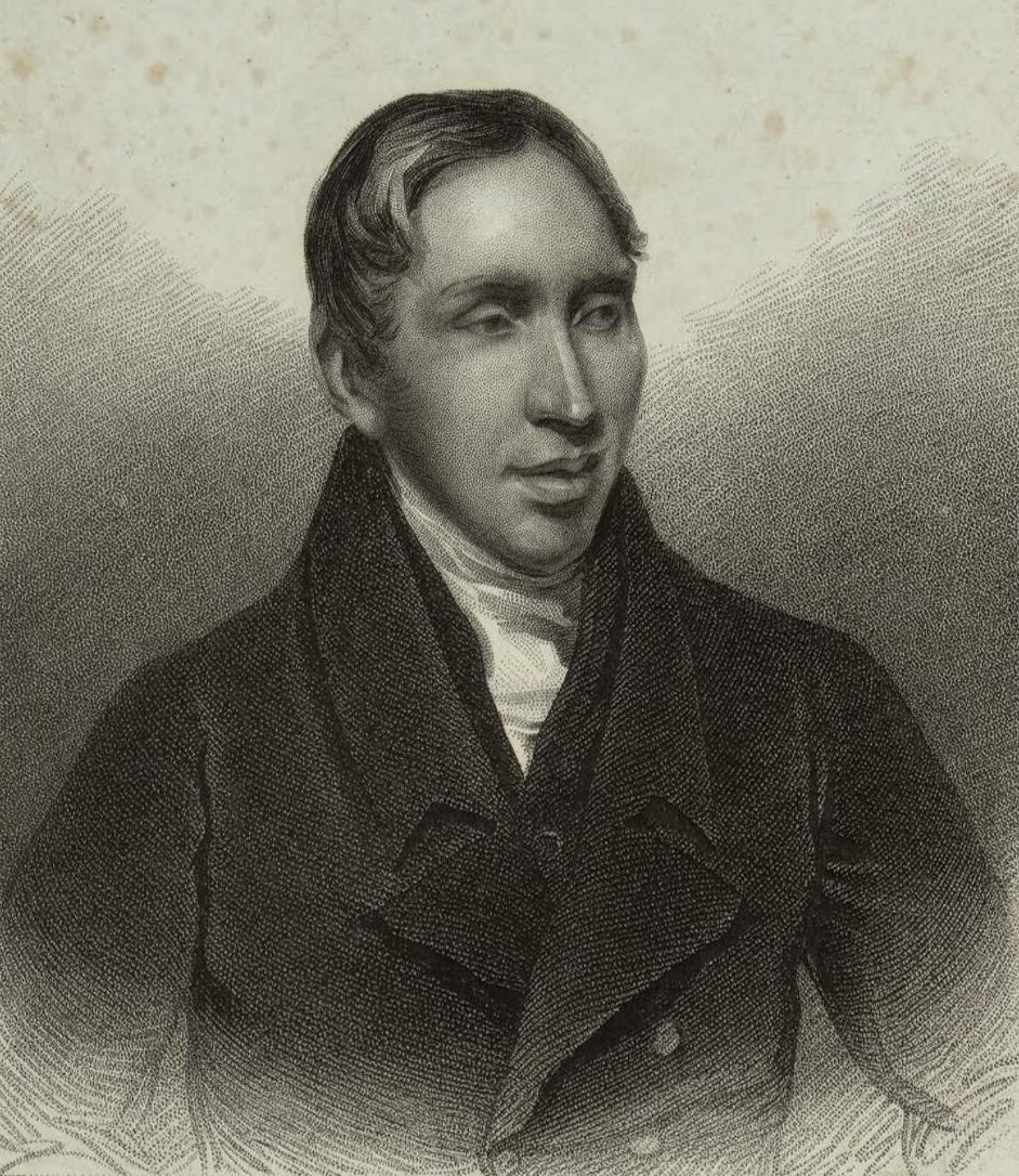 A portrait from the Welsh Portrait Collection at the National Library of Wales. Depicted person: William Kaye – Anglican Archdeacon